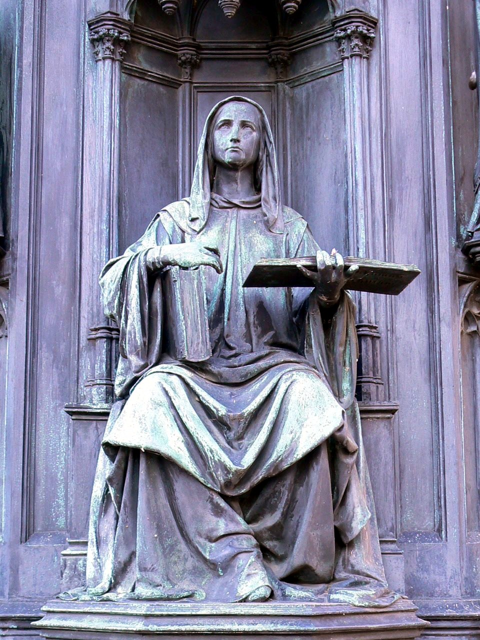 Personification of the Faculty of Theology (decoration of the southern face of the pedestal of the statue of Charles IV, Holy Roman Emperor; Křižovnické Square, Prague, Czechia)